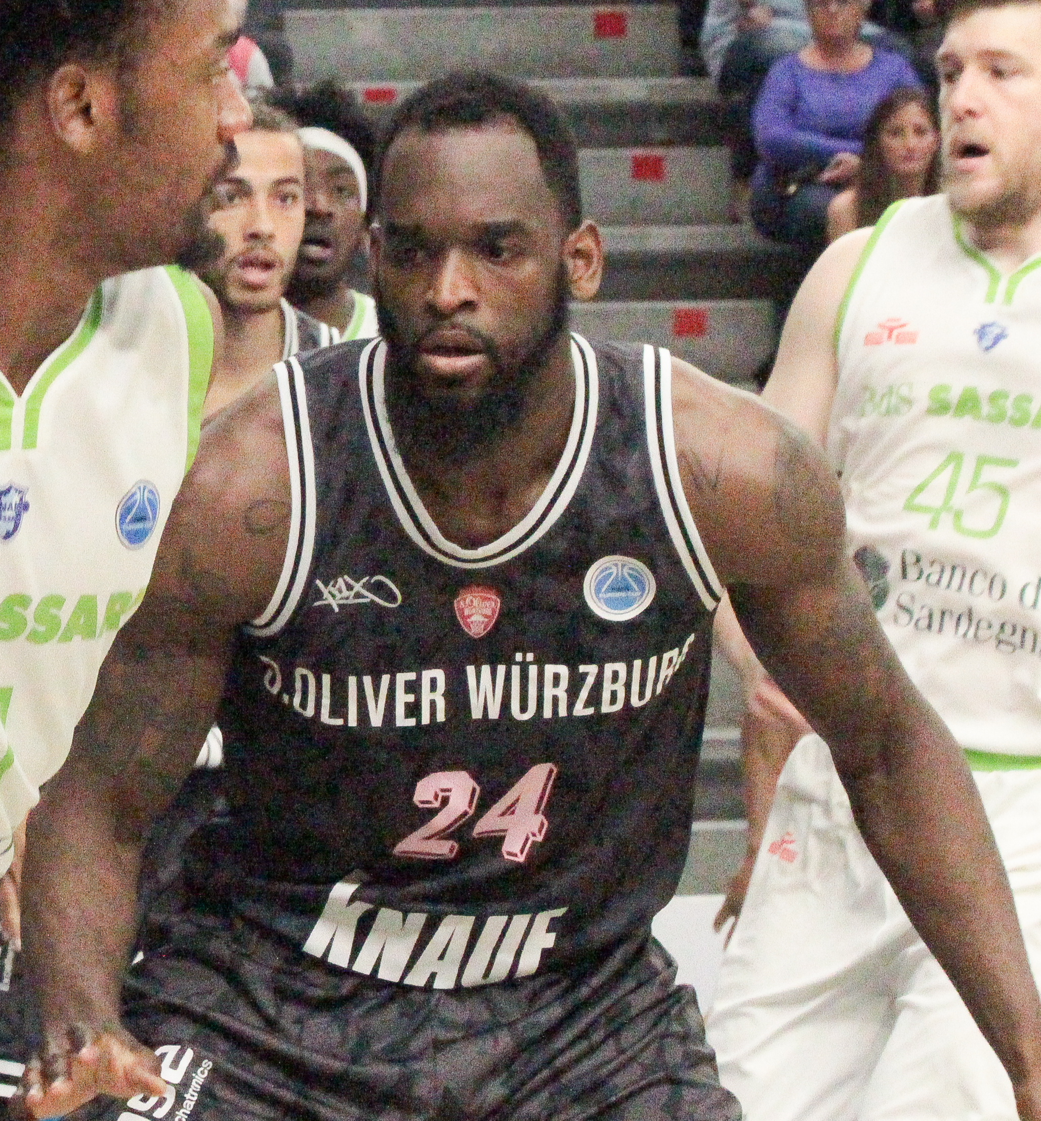 Dyshawn Pierre and Mike Morrison in the finals of the FIBA Europe Cup 2018-2019